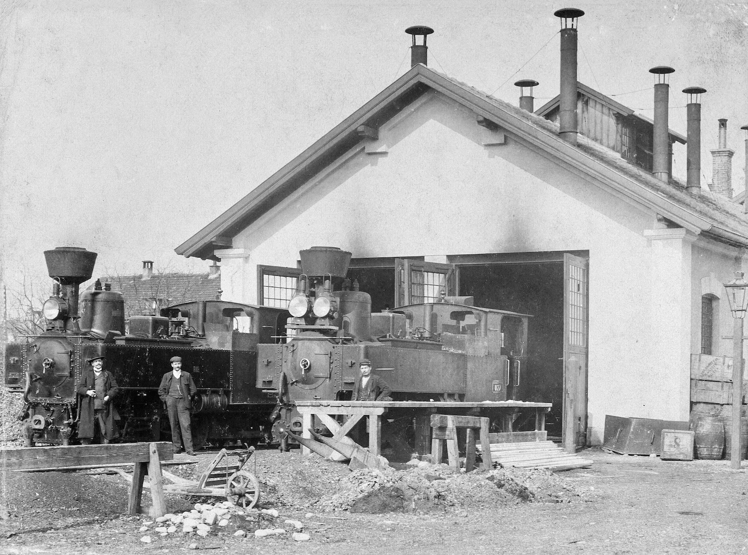 Vorkloster engine shed of the Bregenzerwaldbahn in Vorarlberg with two U-class engines